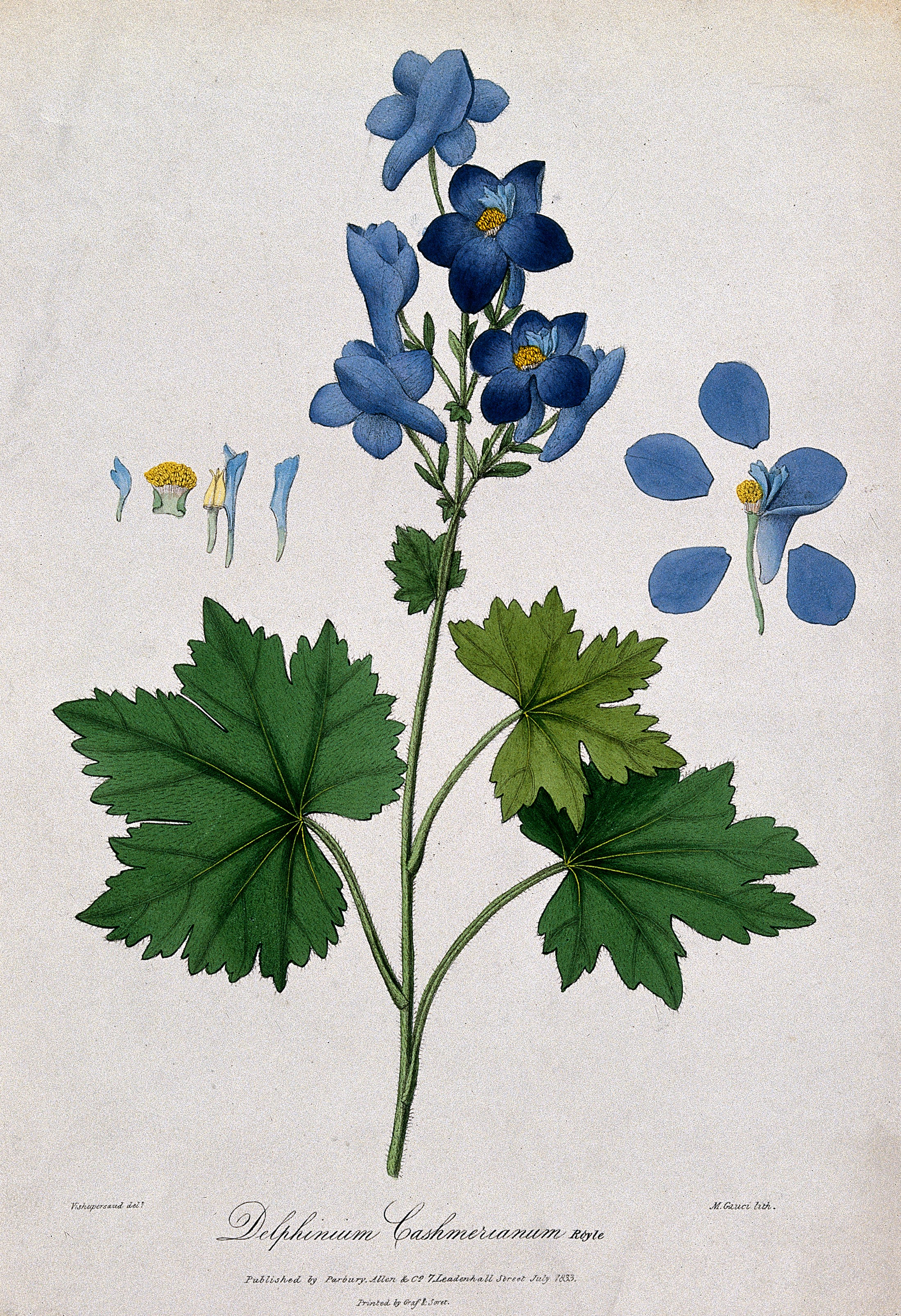 A plant (Delphinium cashmerianum Royle): flowering stem with floral segments. Coloured lithograph by M. Gauci, c. 1833, after Vishupersaud. Iconographic Collections Keywords: Maxim Gauci; Vishupersaud; John Forbes Royle